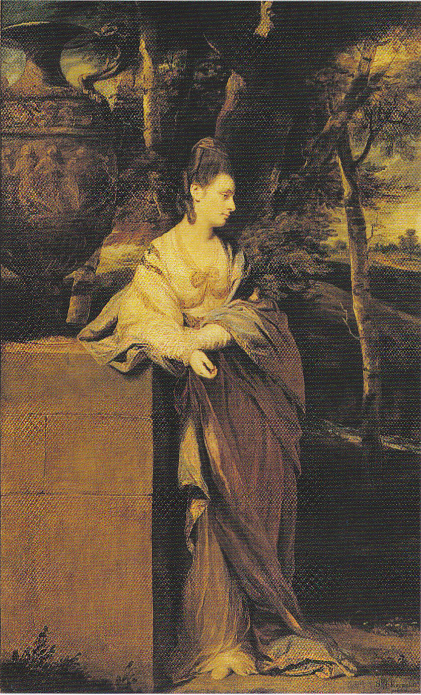 Portrait of Theresa Robinson (1744/5-1775), second wife of John Parker, 1st Baron Boringdon (1734/5-1788) and second daughter of Thomas Robinson, 1st Baron Grantham